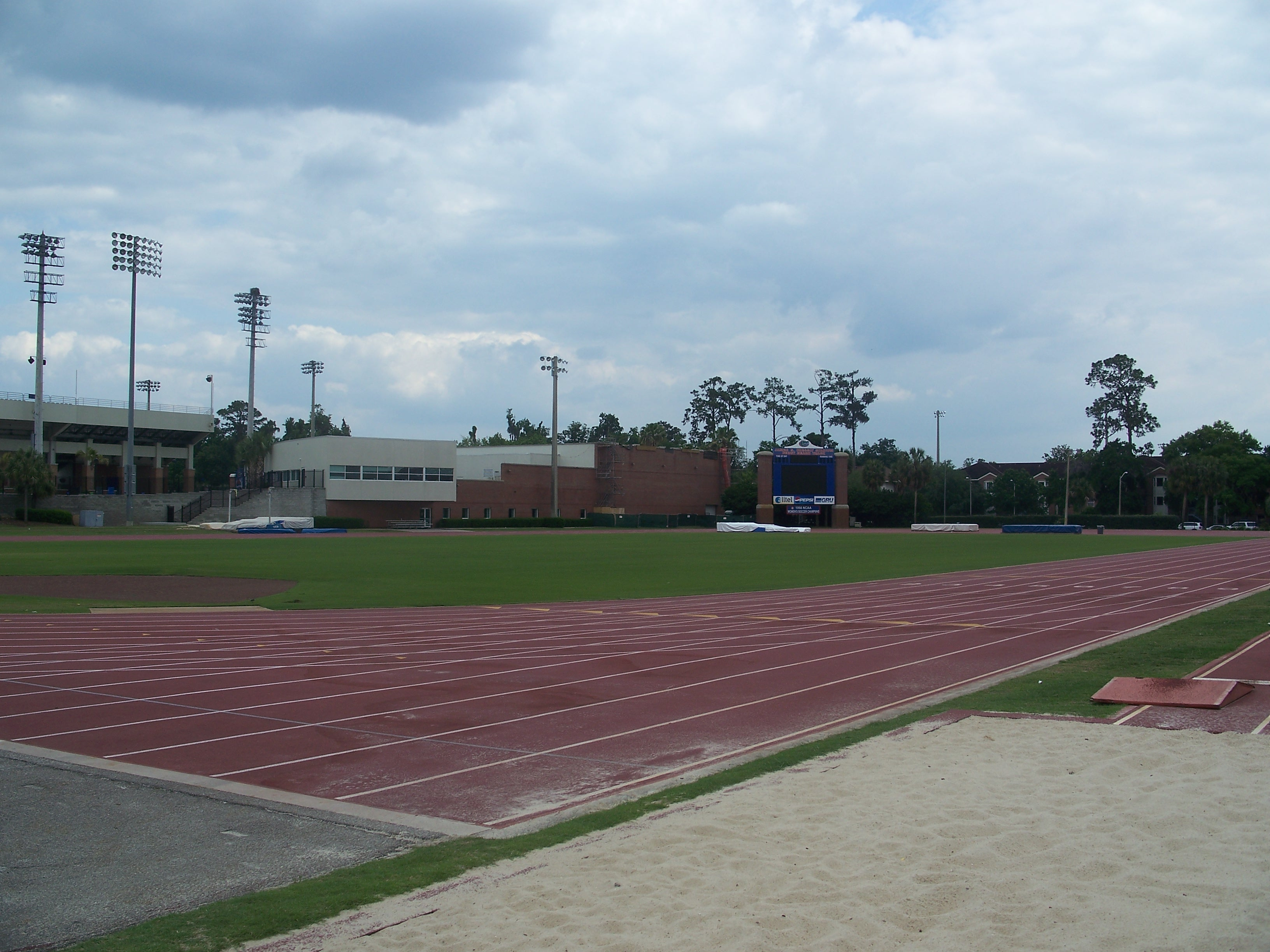 Gainesville, Florida: University of Florida: James G. Pressly Stadium: Track field